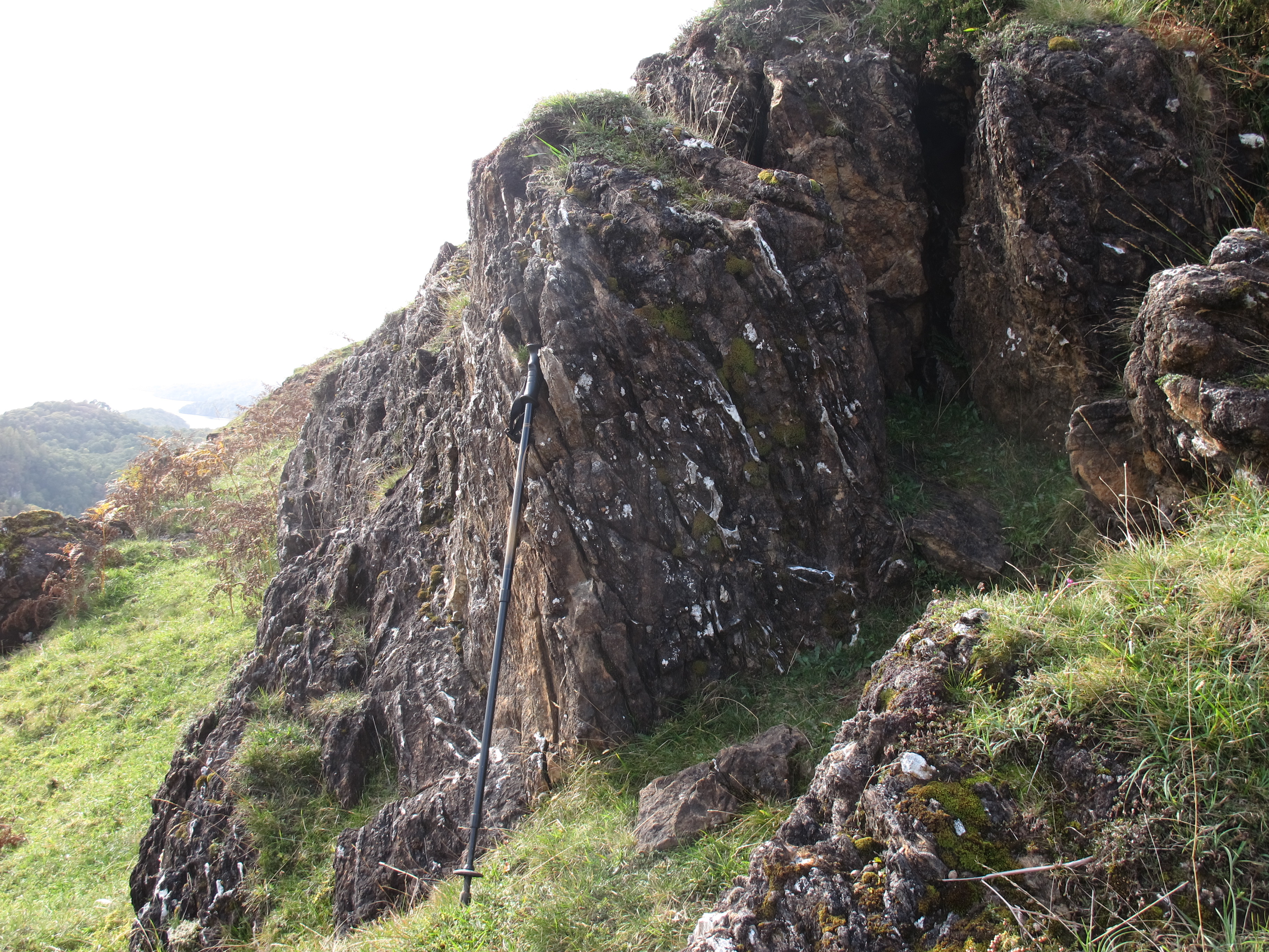 Altered serpentinite and associated sediments of the Highland Border Complex on the ridge of Druim nam Buraich near Balmaha - walking pole ca. 1.2 m for scale